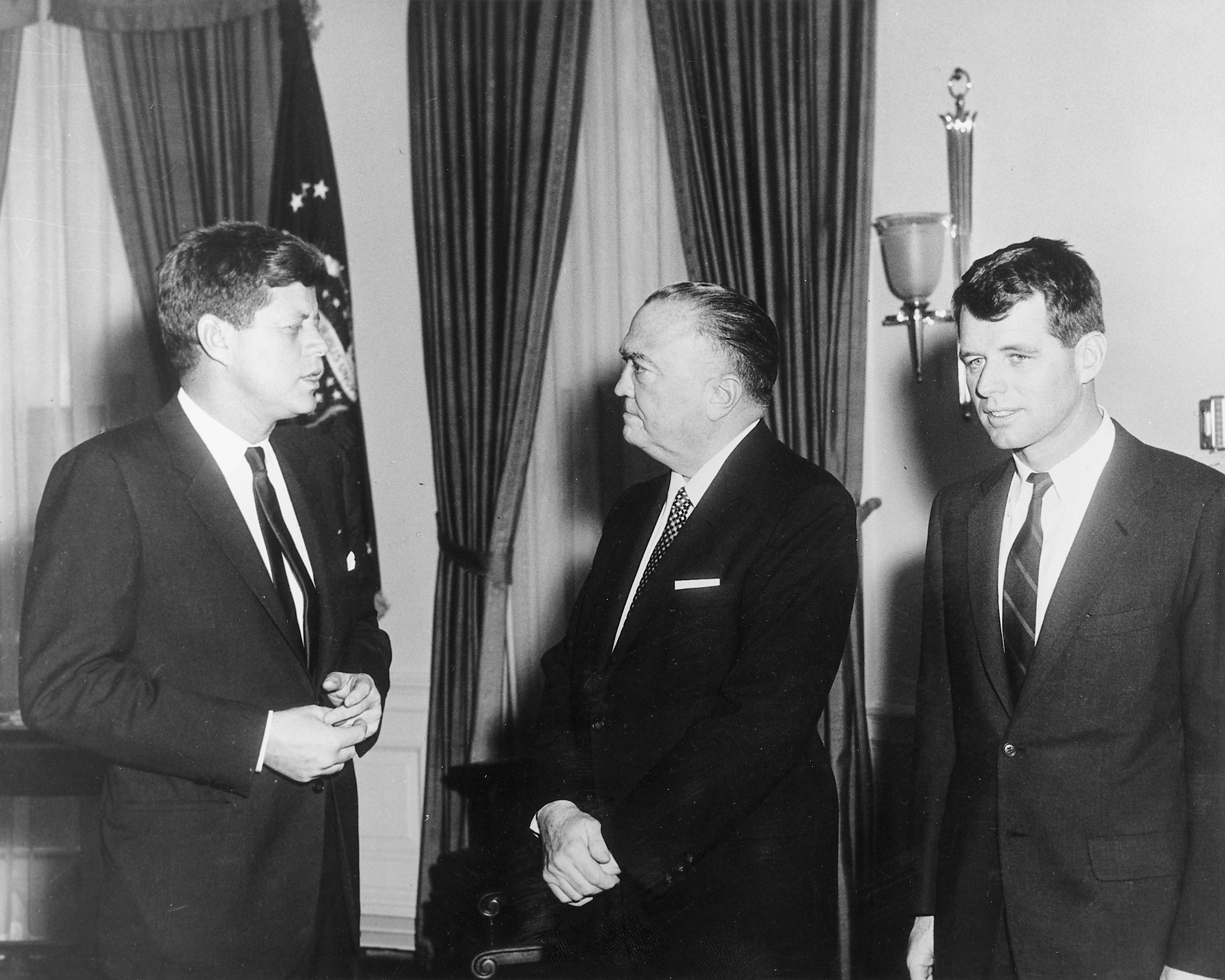 Visit of Attorney General and Director of FBI, (left to right) U.S. President John F. Kennedy, F.B.I. director J. Edgar Hoover, U.S. Attorney General (and the President's brother) Robert F. Kennedy. White House Oval Office, 1961. NARA Series: Abbie Rowe White House Photographs, 12/6/1960 - 3/11/1964 Note: Converted to .jpg and border cropped before upload to Wikimedia Commons.